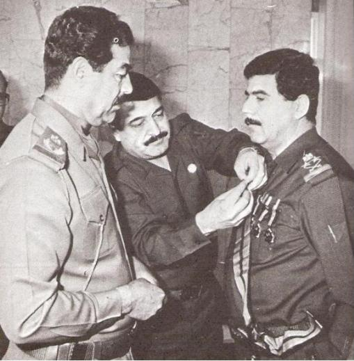 Adnan Khairallah, Iraqi Defence Minister, being awarded by Saddam Hussein